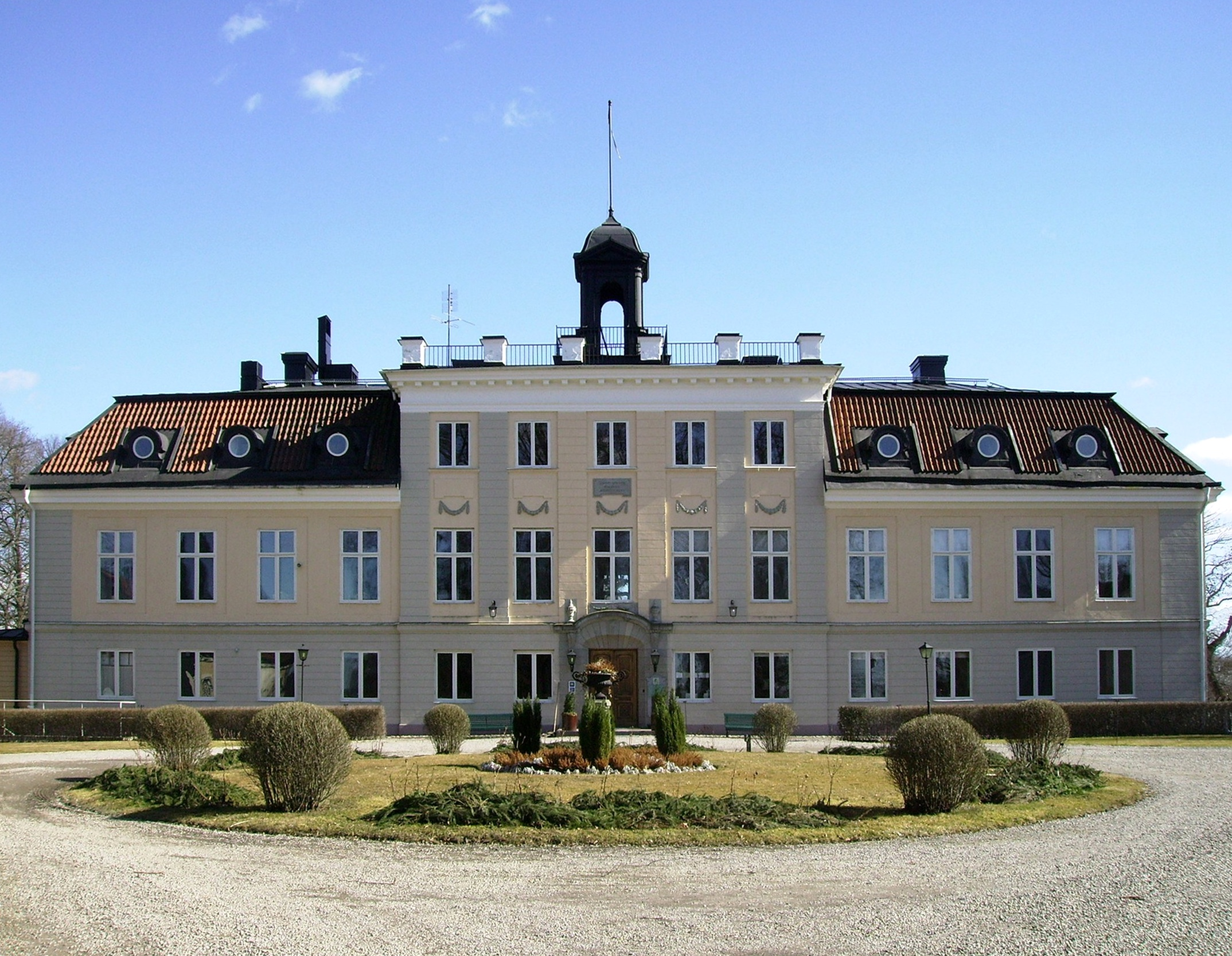 Picture of Sodertuna castle in Gnesta, march 2009.